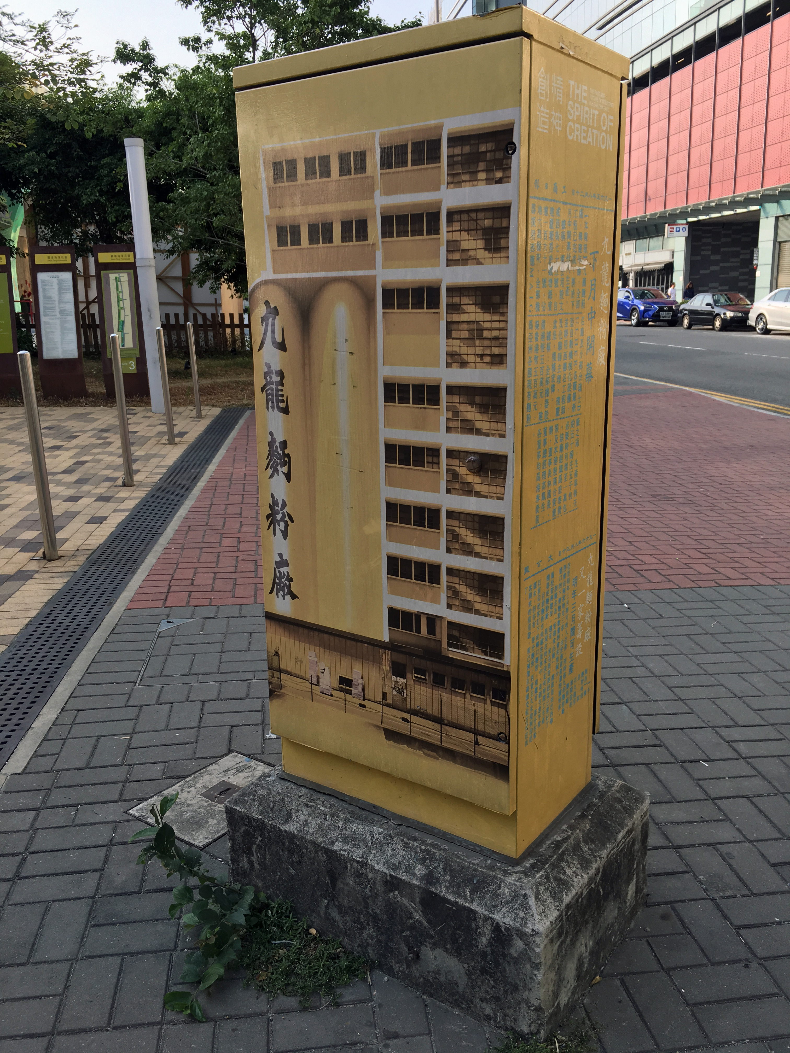 "The Spirit of Creation – Study of Industrial Culture of Kowloon East" is one of the projects of Energizing Kowloon East. It showcased the industrial development of Kwun Tong, by transforming switch boxes into public art installation. This switch box is located at the pedestrian road opposite to the Kowloon Flour Mills, which has information written on about the said mill factory.